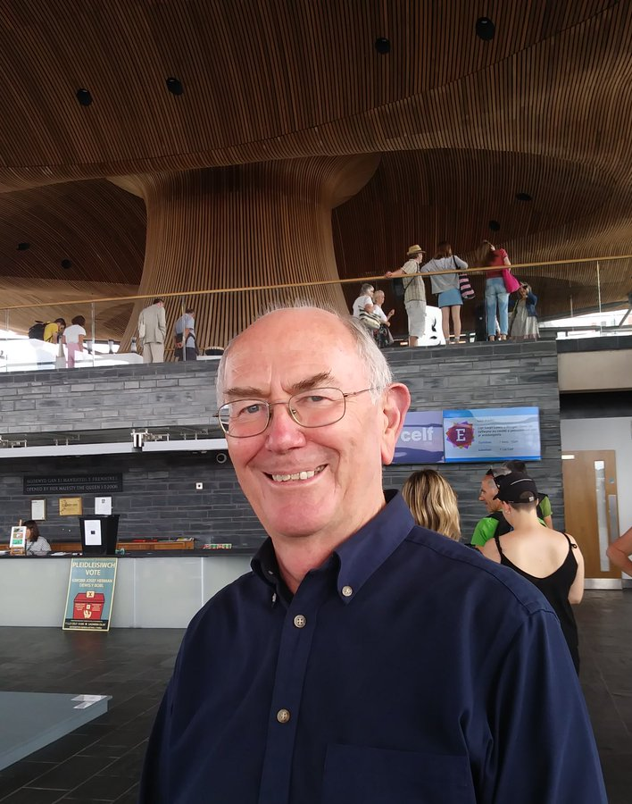 Eufryl ap Gwilym, Senedd 2018